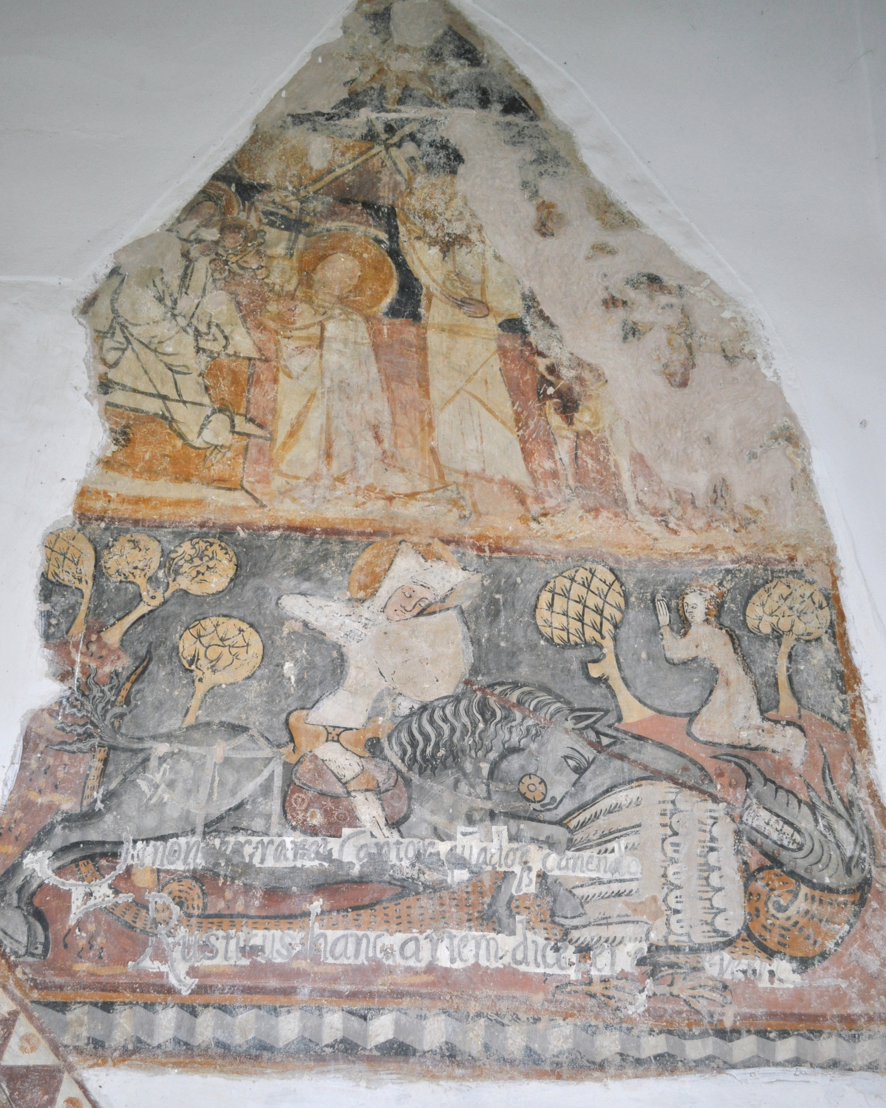 Reformed church in Alma, Sibiu county, Romania